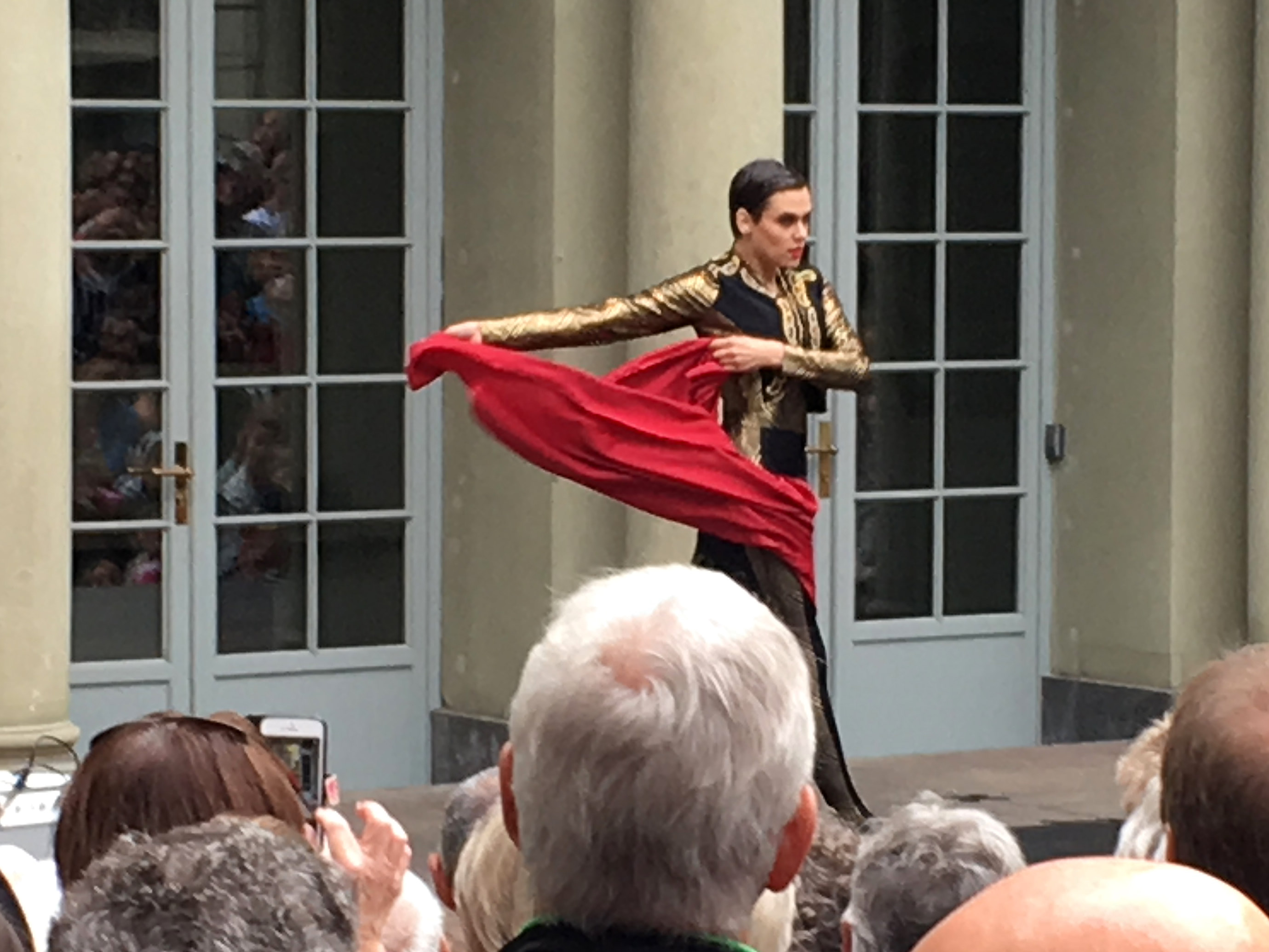 The Swiss contortionist Nina Burri, on stage in Berne during the Buskers Festival 2017